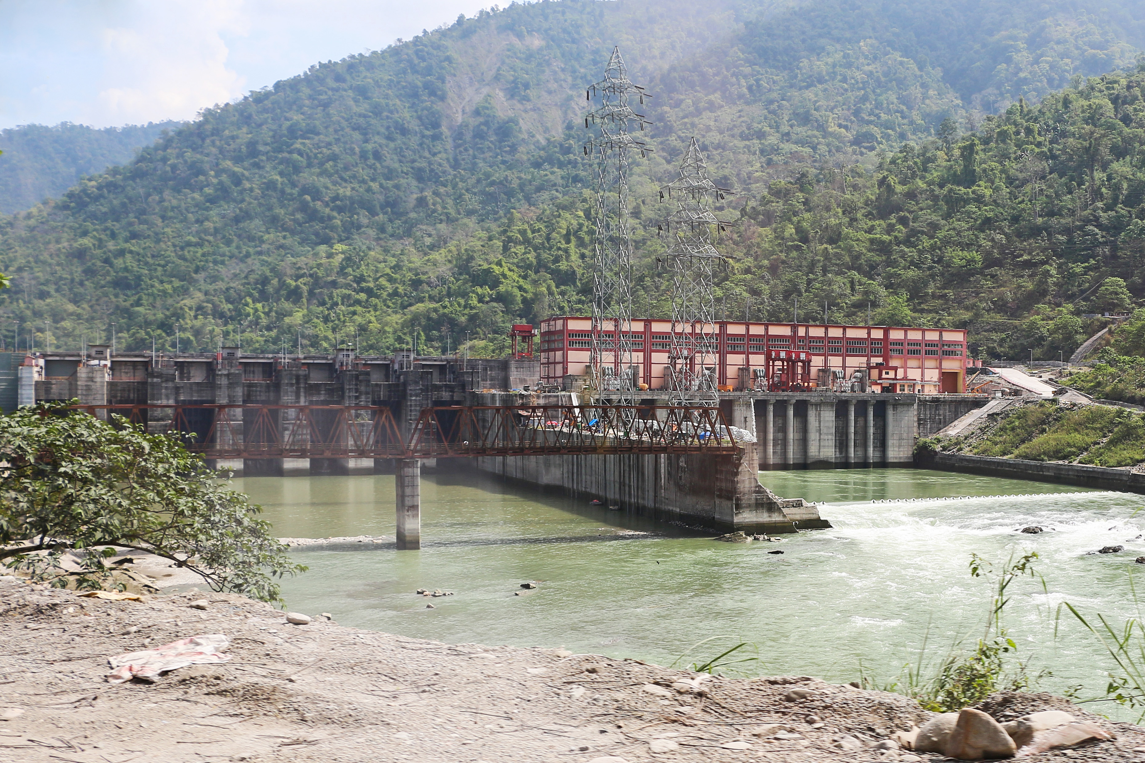 Teesta Low Dam-IV, West Bengal, India